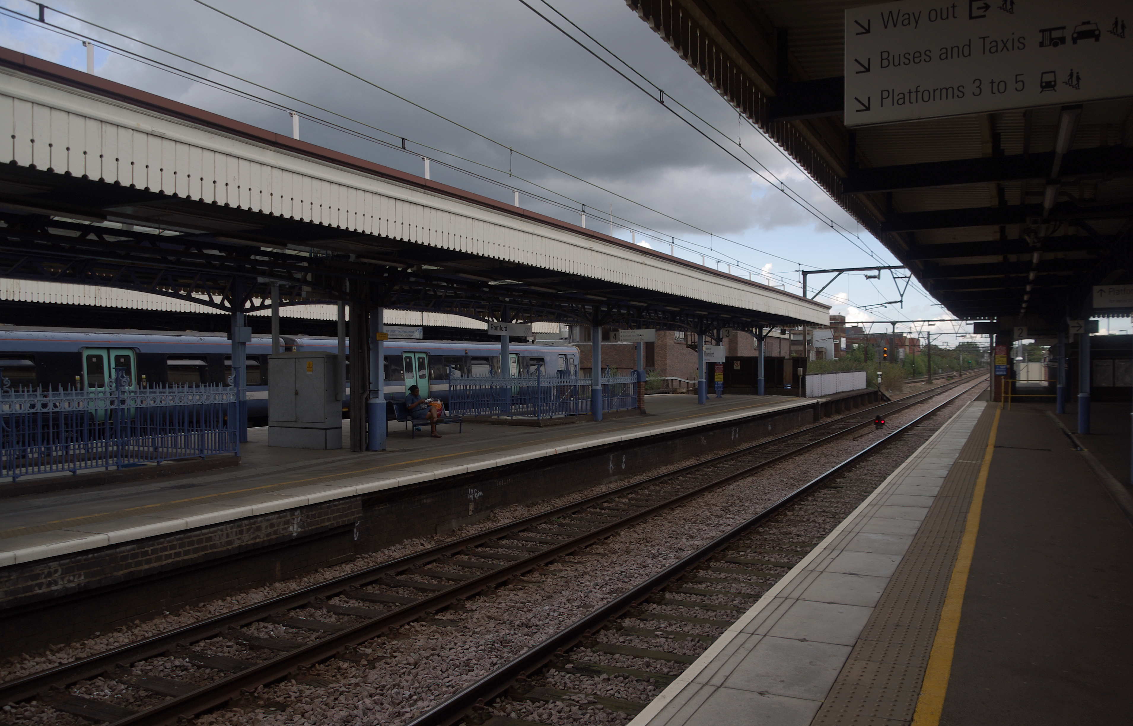 National Express East Anglia EMU 315802 calls at Romford with a Shenfield service.